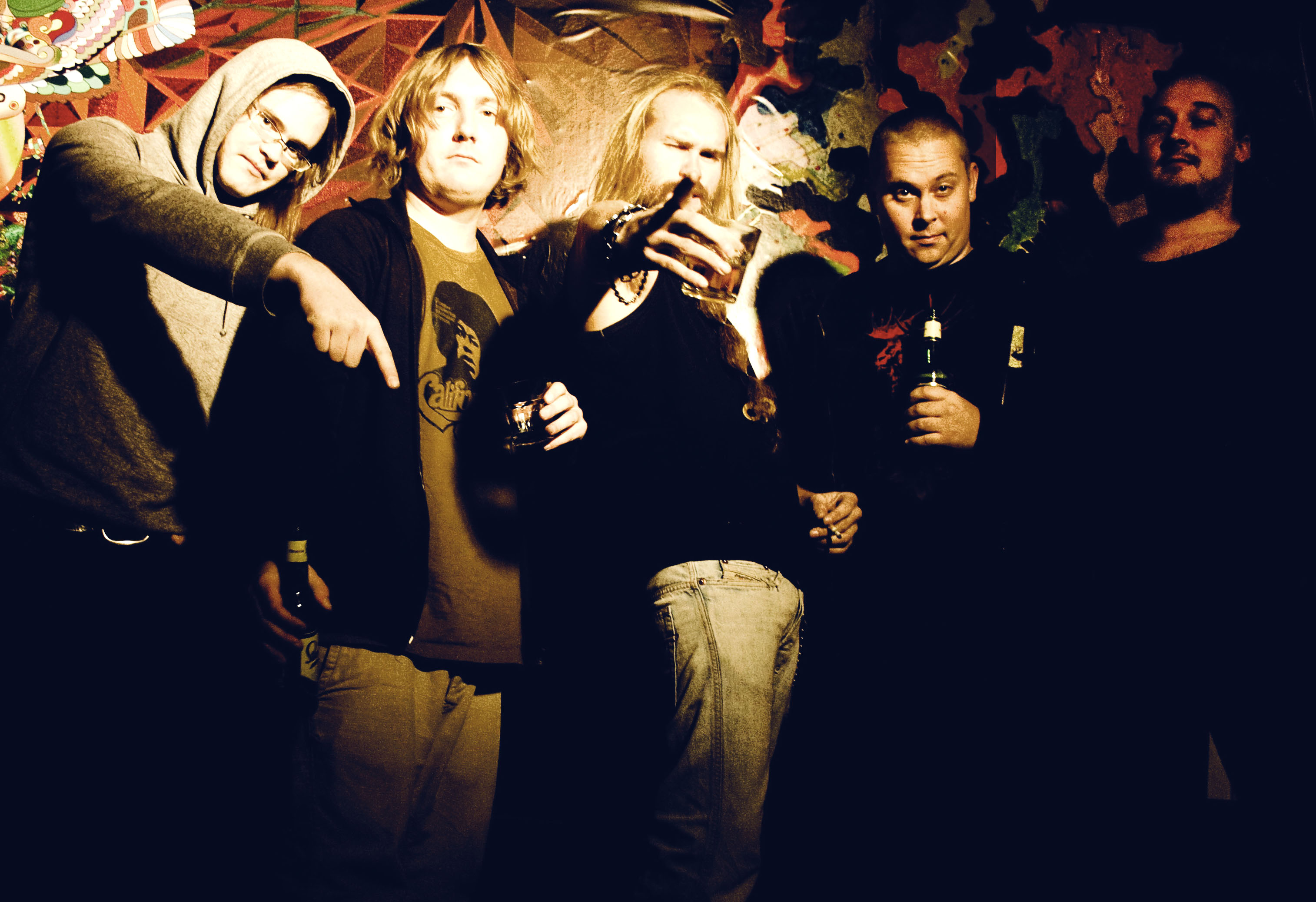 Norwegian heavy metal band Bulk